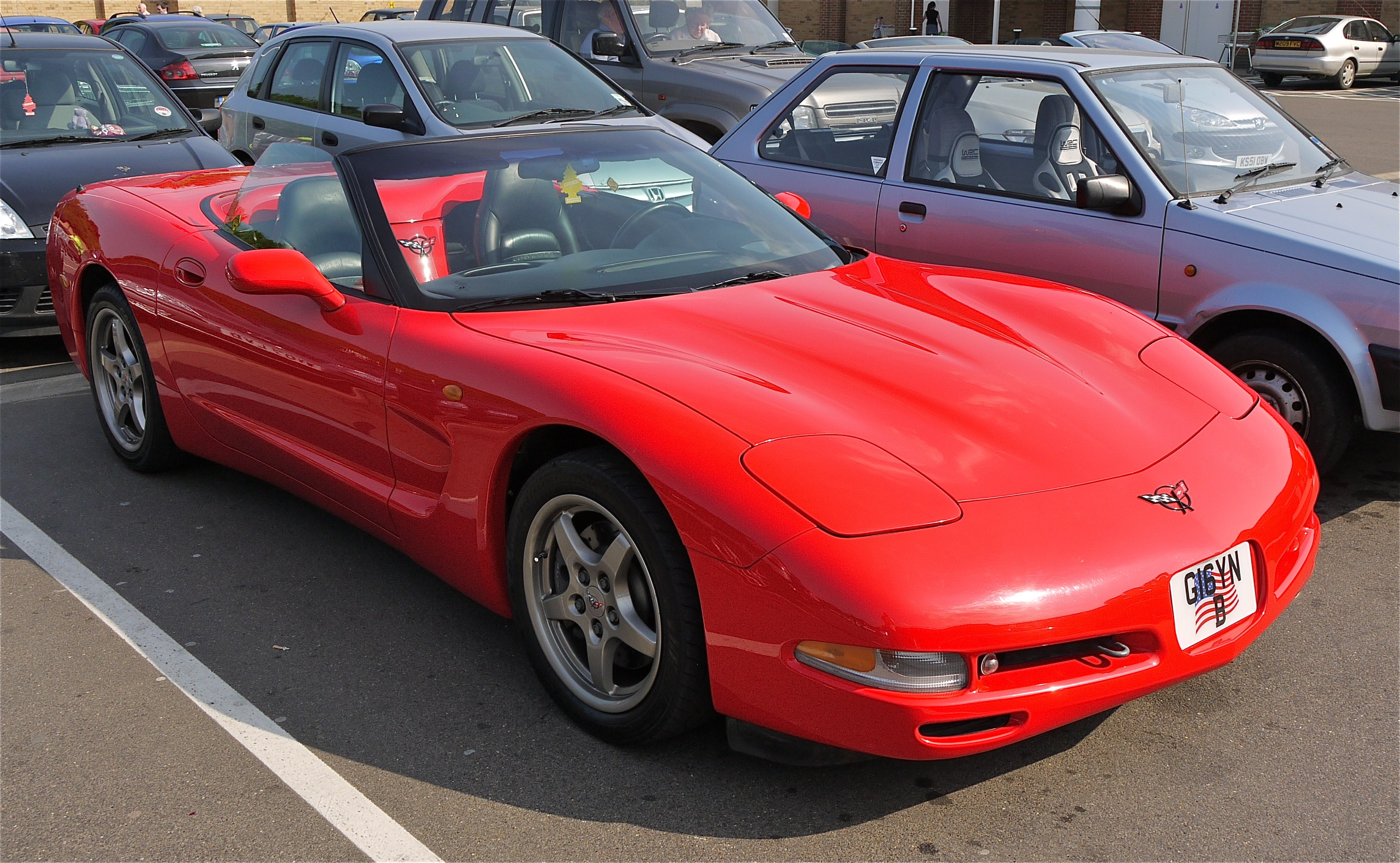 Tax disc said Chevrolet, reg number not listed on sites ? Panasonic G1 14-45 Lens